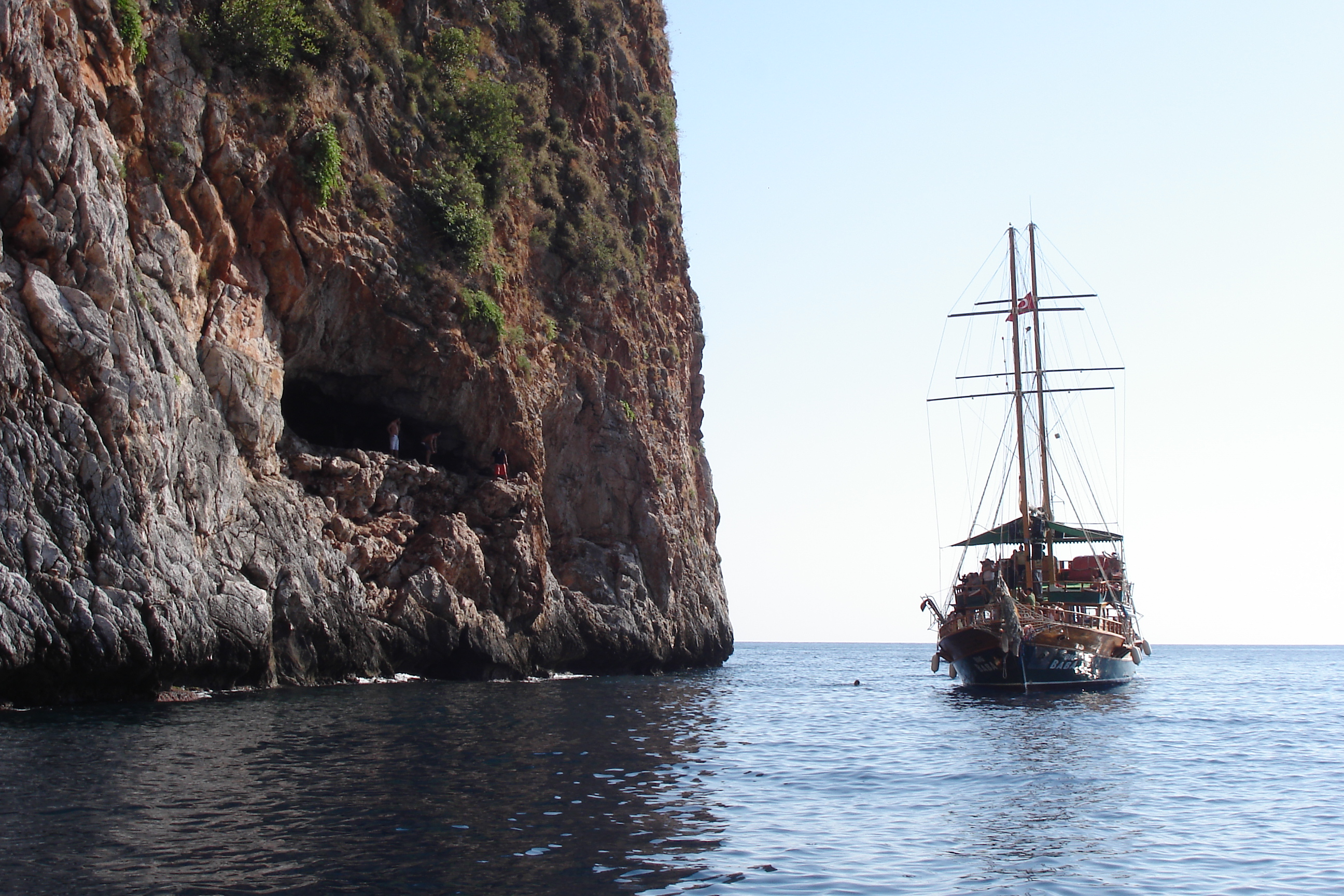 Amorous cave in Alanya.